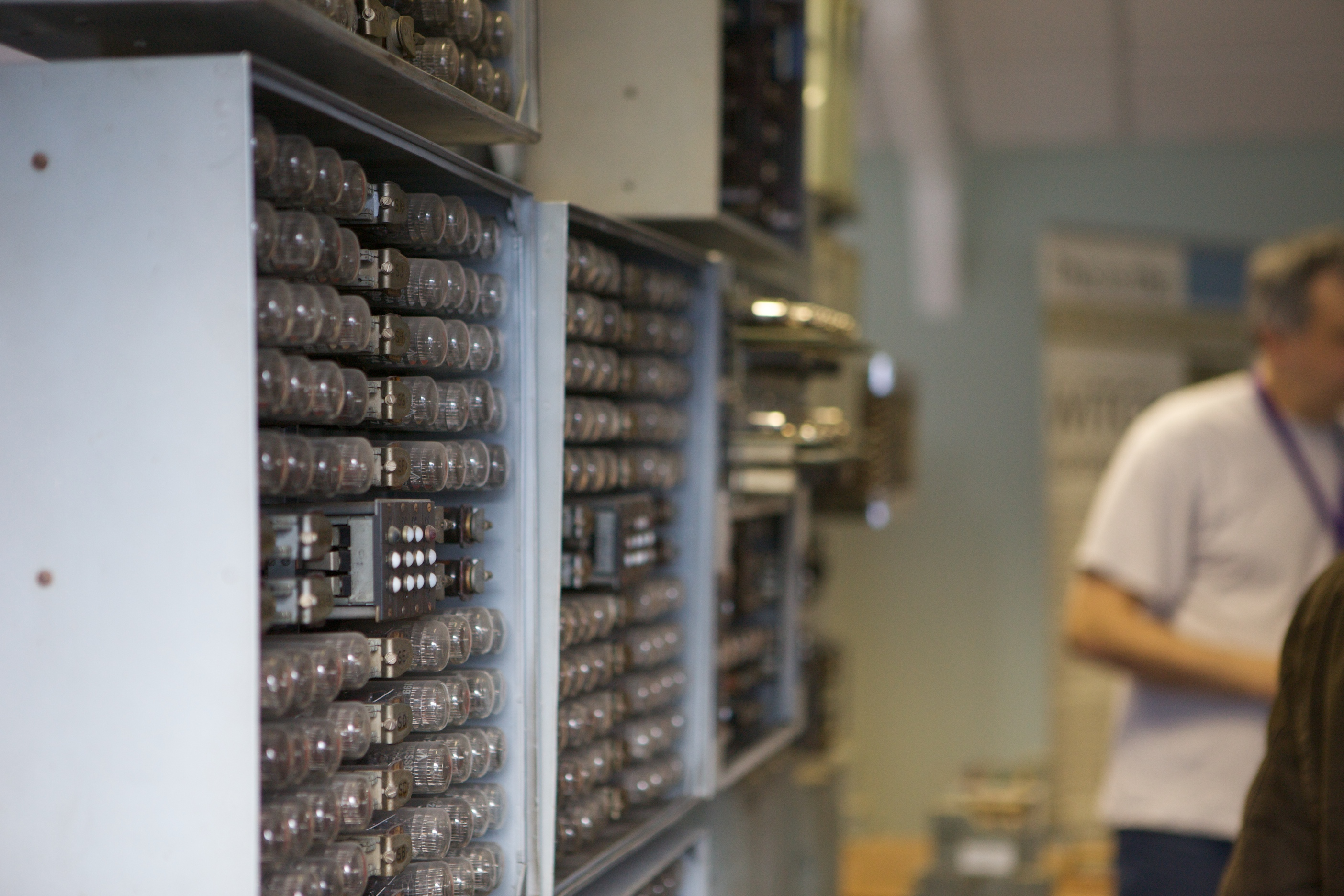 Photographs of the Harwell-Dekatron Computer, also known as WITCH. Taken at the National Museum of Computing at Bletchley Park, UK.